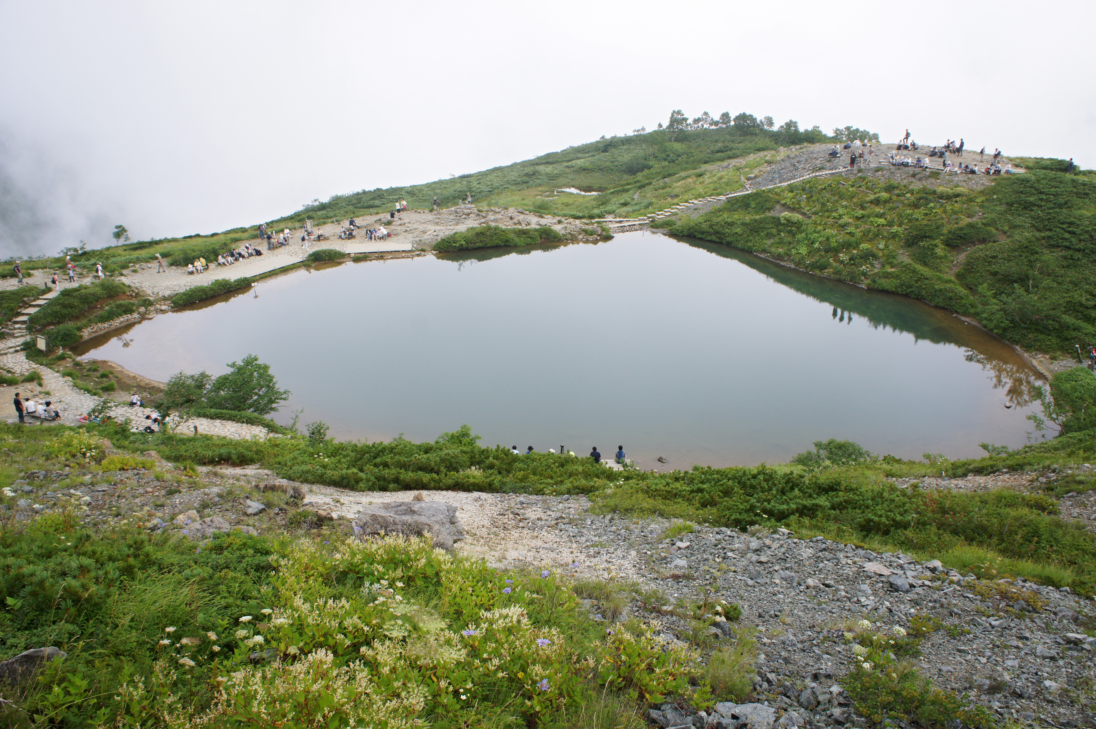 Happo-one in Hakuba, Nagano prefecture, Japan